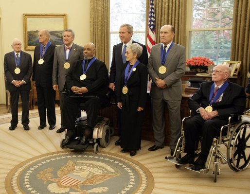 President George W. Bush stands with recipients of the 2005 National Medal of Arts winners Thursday, Nov. 9, 2005, in the Oval Office. Among those recognized for their outstanding contributions to the arts were, from left: Leonard Garment, arts advocate; Louis Auchincloss, author; Paquito D'Rivera, jazzist; James DePreist, symphony conductor; Tina Ramirez, choreographer; Robert Duvall, actor, and Ollie Johnston, animator.